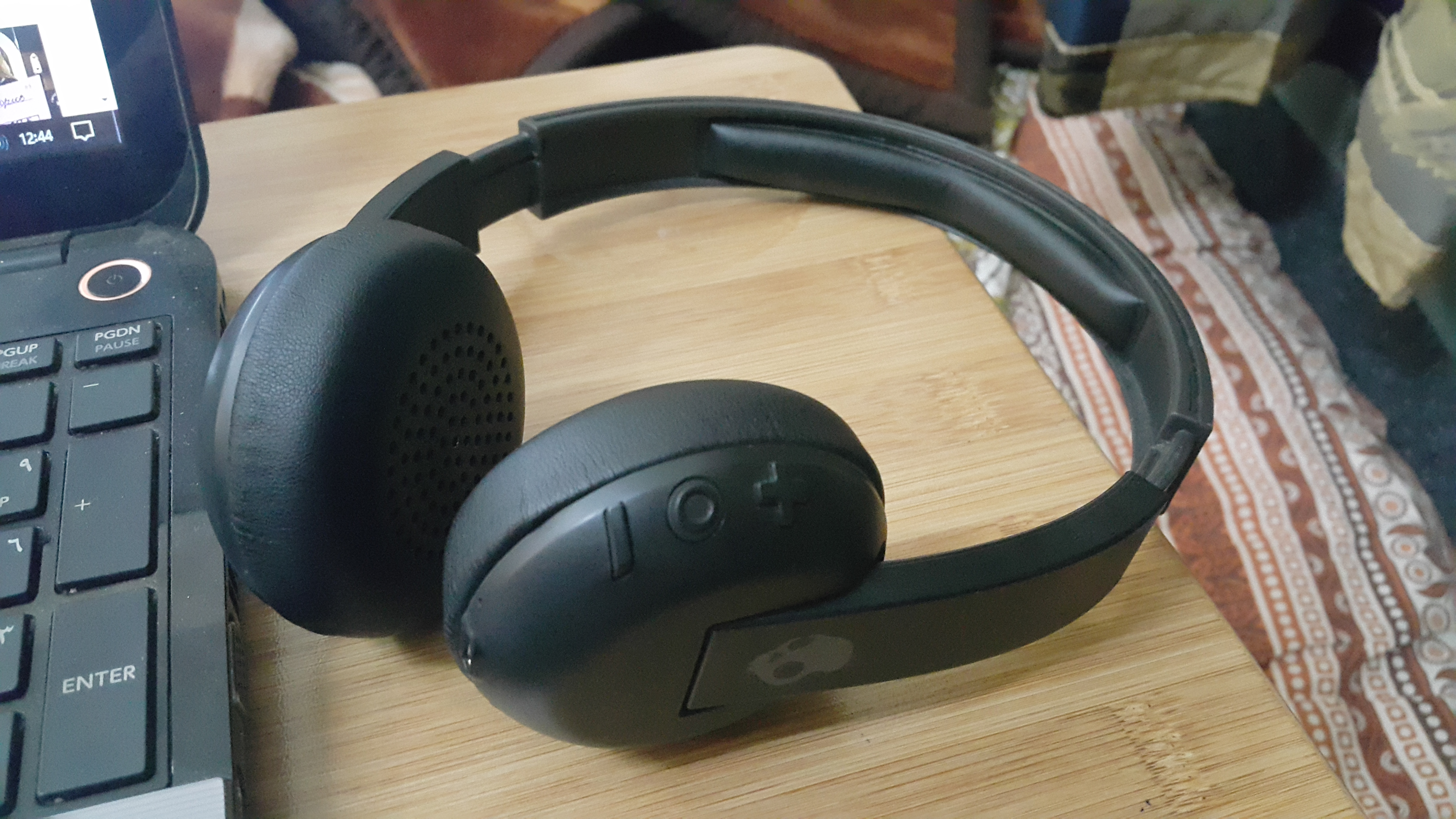 A black Uproar Wireless by Skull Candy budget Bluetooth headsets.